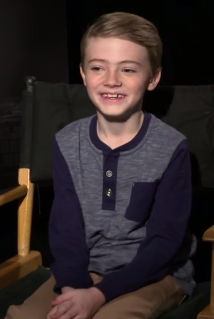 Jackson Robert Scott in a 2018 interview with MTV